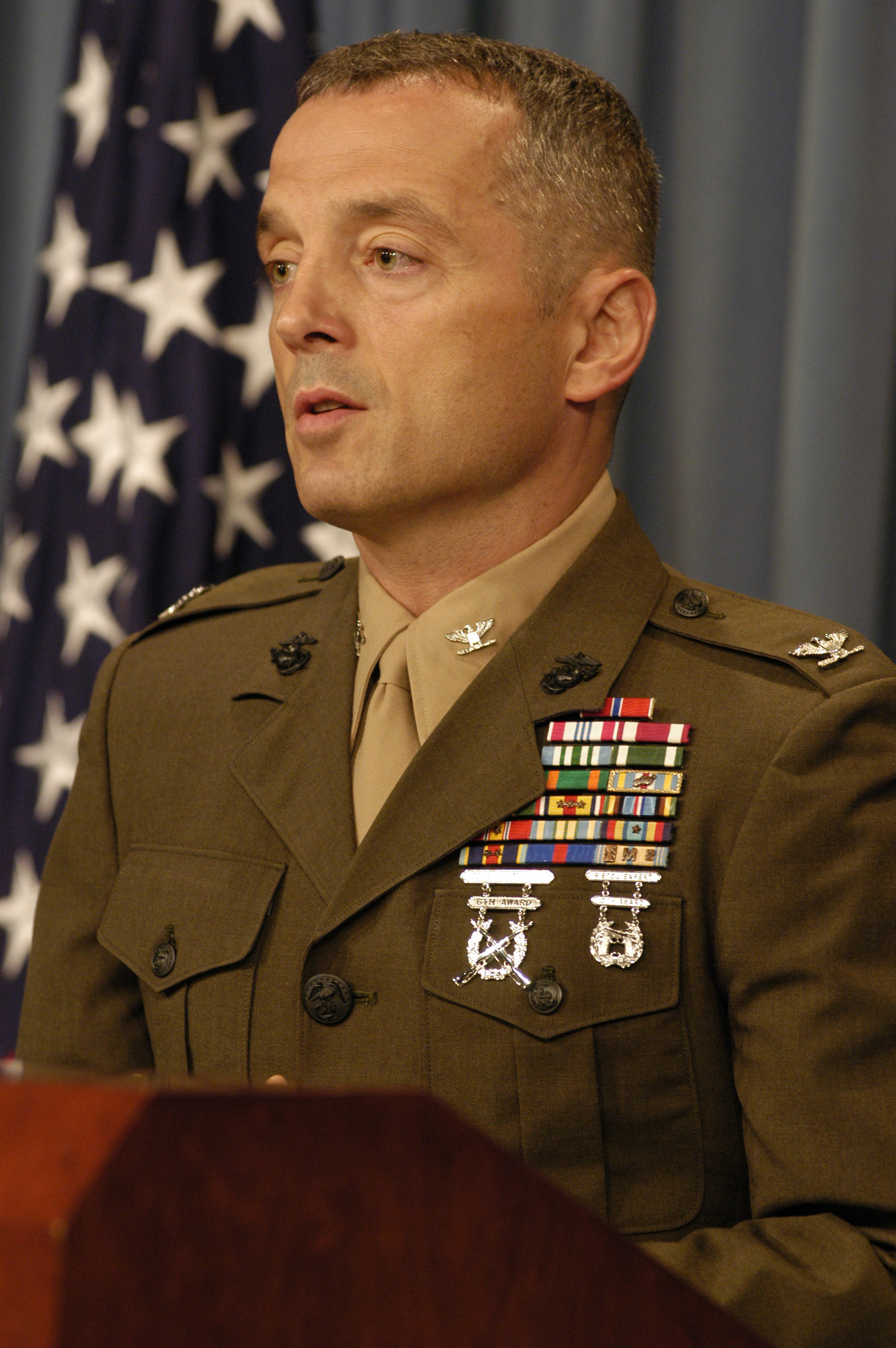 Colonel Matthew Bogdanos, USMC, conducts a Pentagon press briefing on Sept. 10, 2003. Bogdano, the leader of the team investigating the looting of Iraqi antiquities during Operation Iraqi Freedom, discusses his findings.